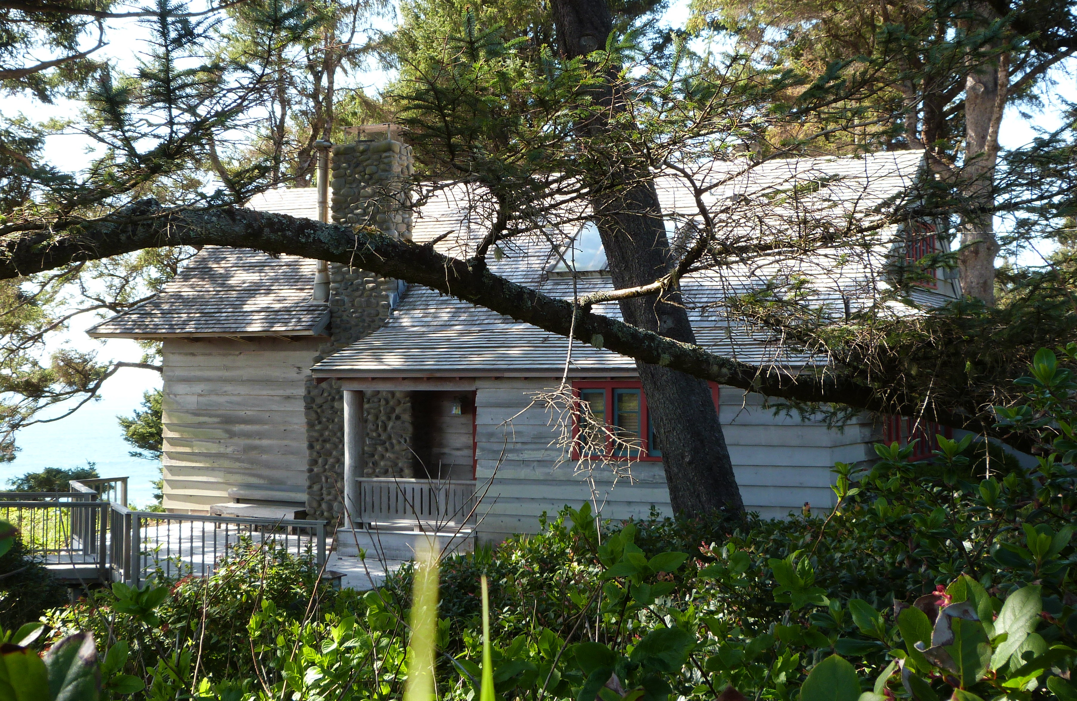 The historic Harry F. Wentz Studio (built 1916), located at Neahkahnie Beach, Oregon, United States, is listed on the US National Register of Historic Places.